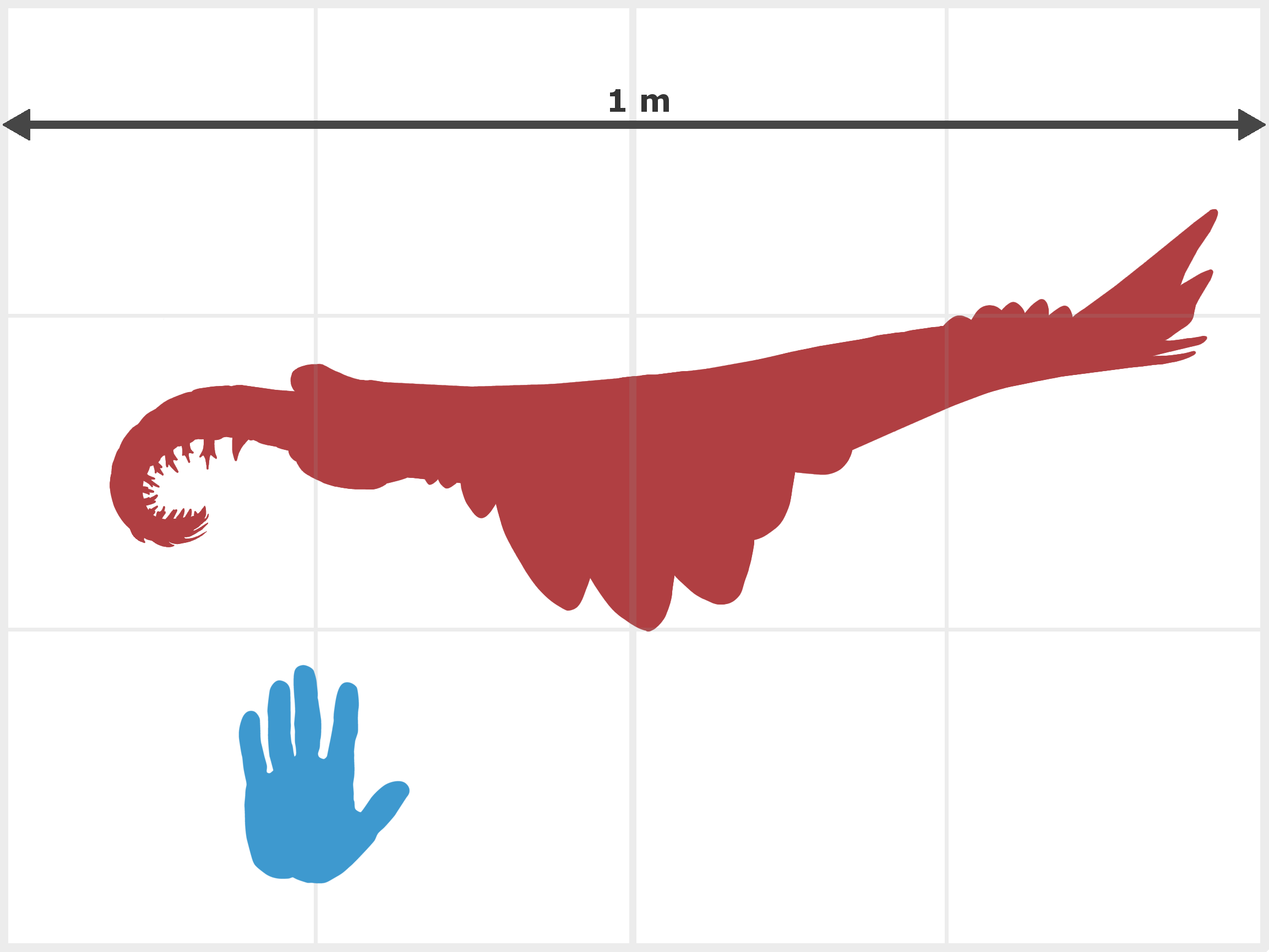 Anomalocaris canadensis size comparison, representing the largest specimen =(Anomalocaris gigantea) A.gigantea is a dubious species which has been synonymised with the type species by some authours. Reconstruction based on recon by Jack Mayer Wood : Size of the hand = the average size for a male Each small square represents 25 cm